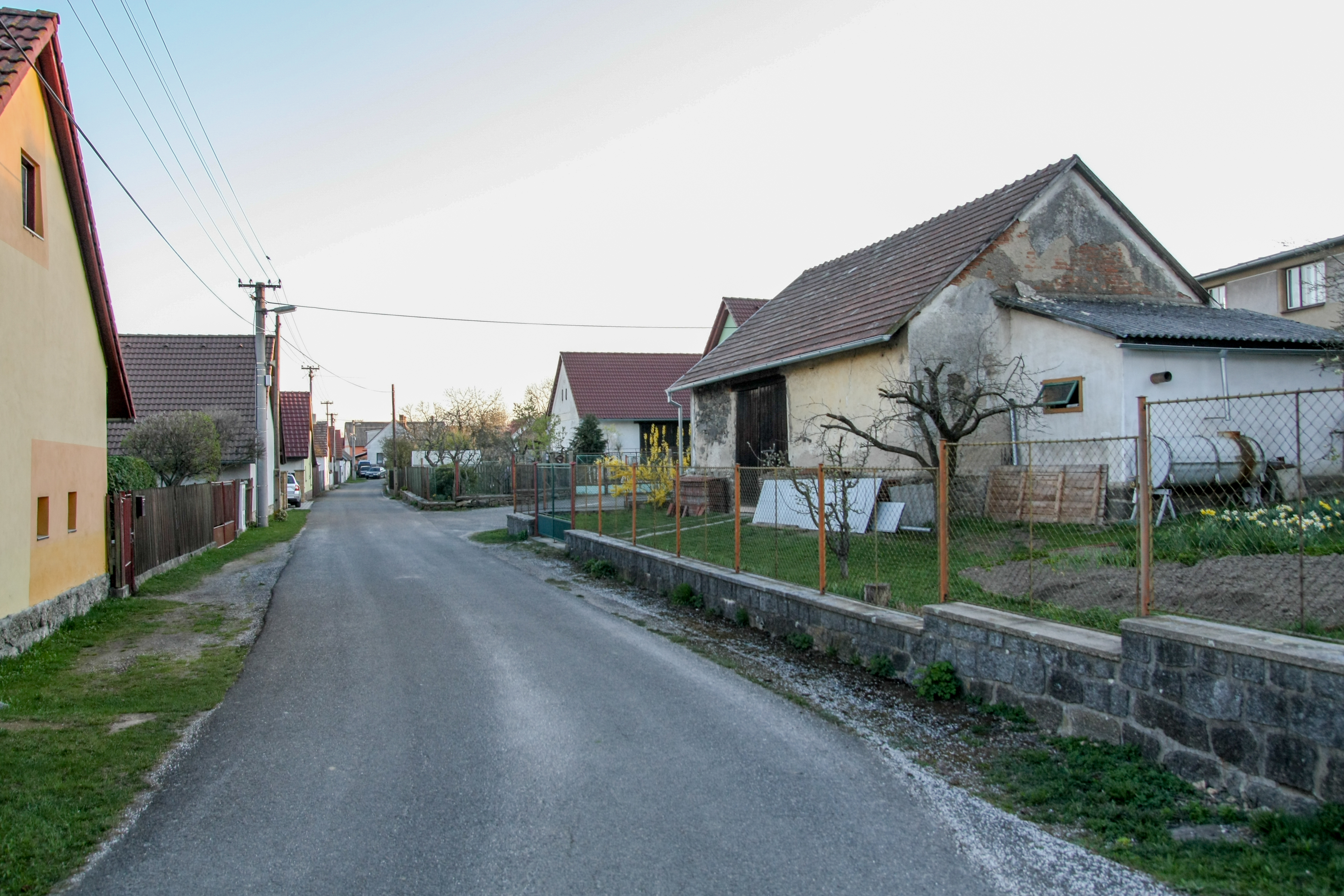 Houses in municipality Nová Ves, Písek District, South Bohemian Region, Czechia